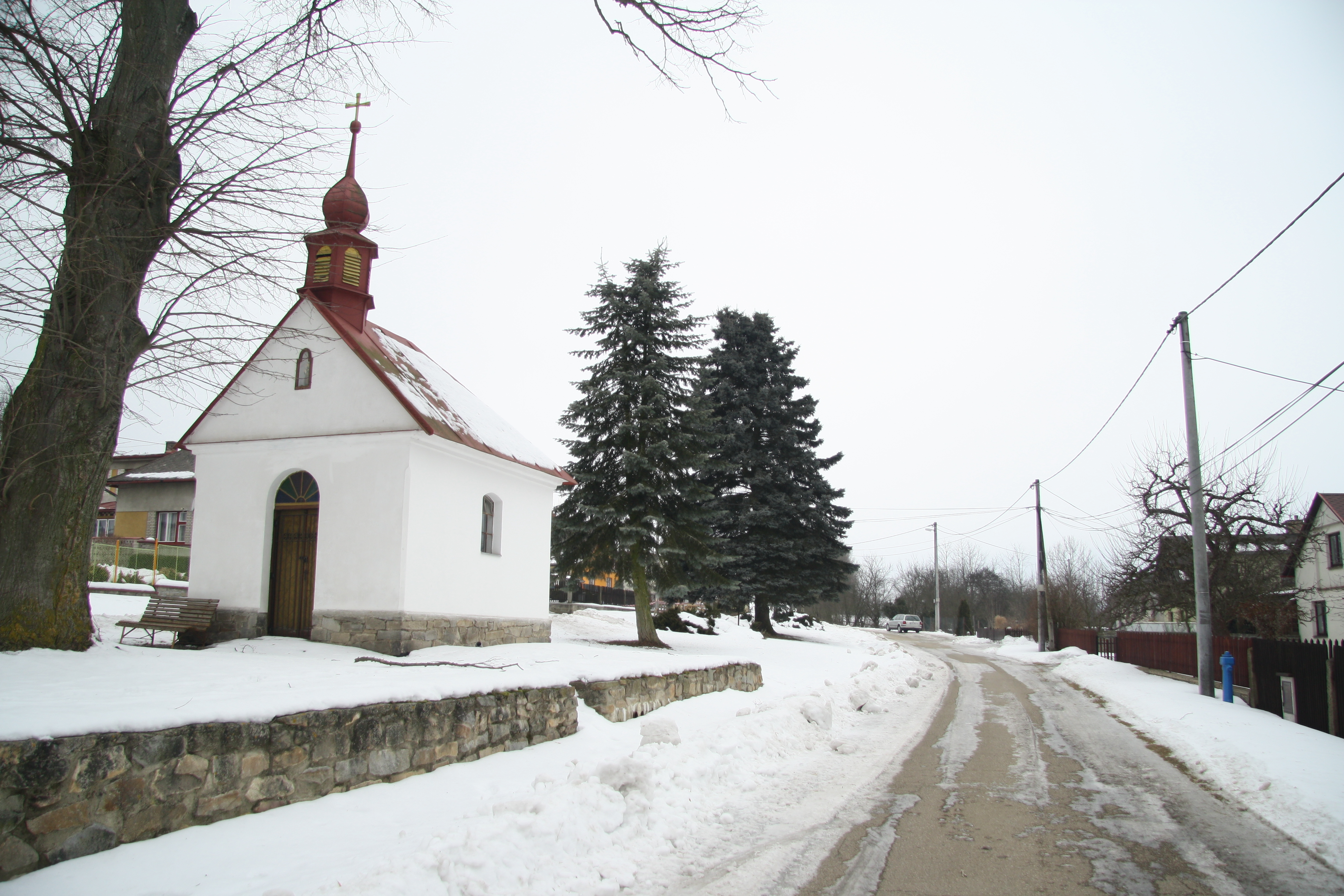 Center with chapel of Jiršov, Mirošov, Jihlava District.